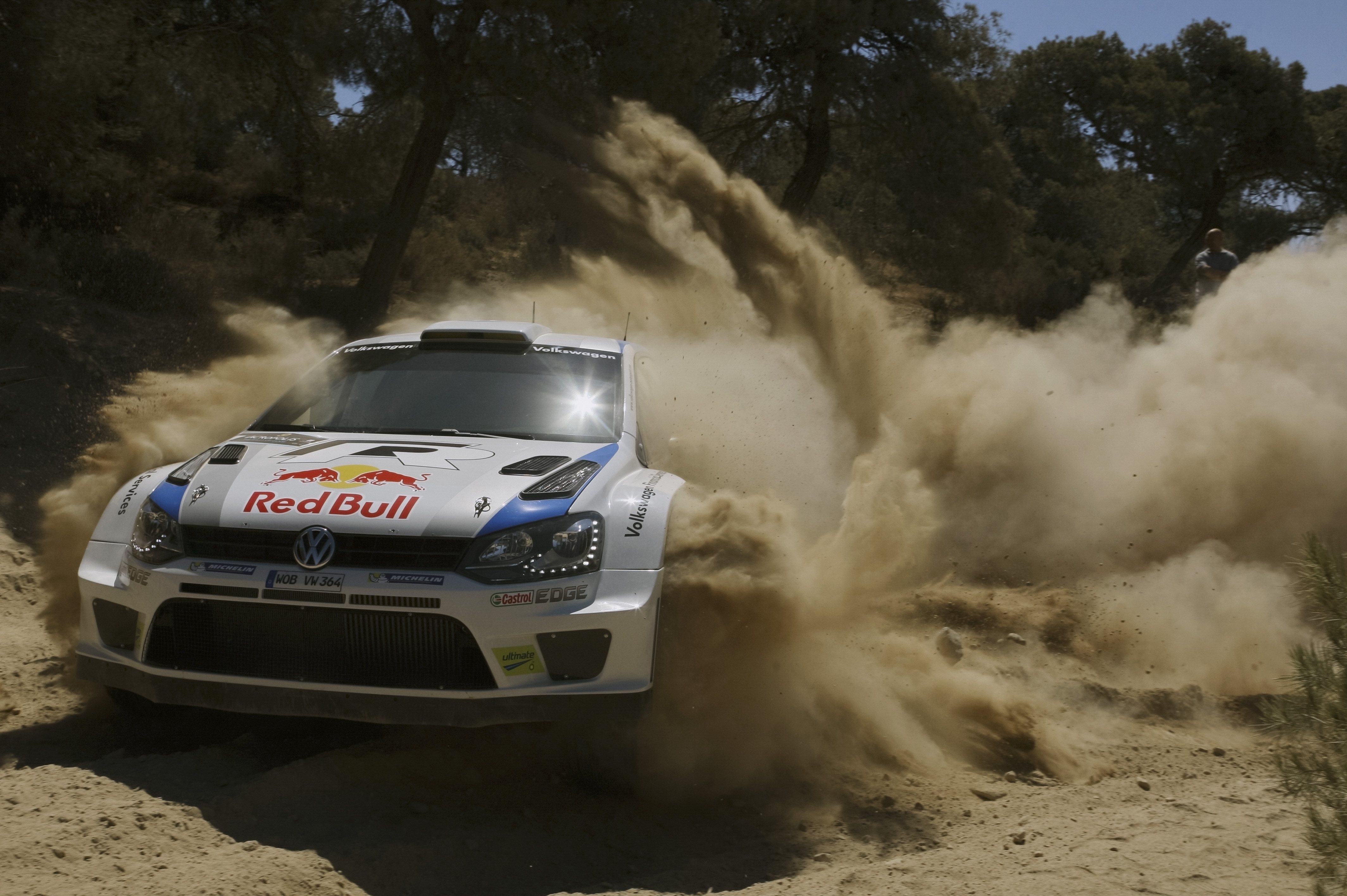 Andreas Mikkelsen and co-driver Mikko Markkula in their VW Polo R WRC at the 2013 Acropolis Rally.